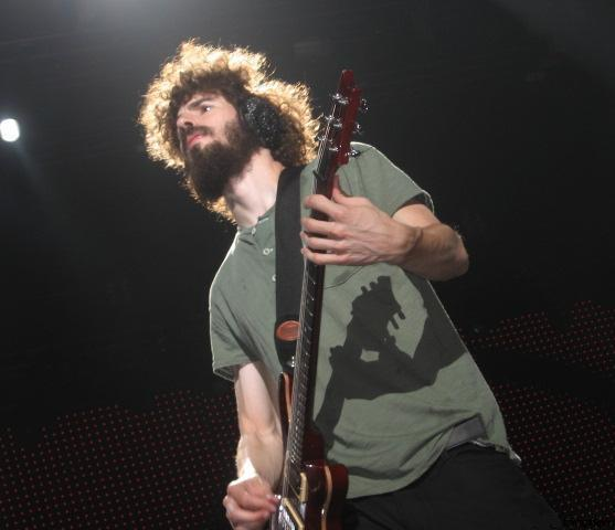 Brad Delson playing at the Smirnoff Music Centre in Dallas, TX during the Projekt Revolution tour 2007.